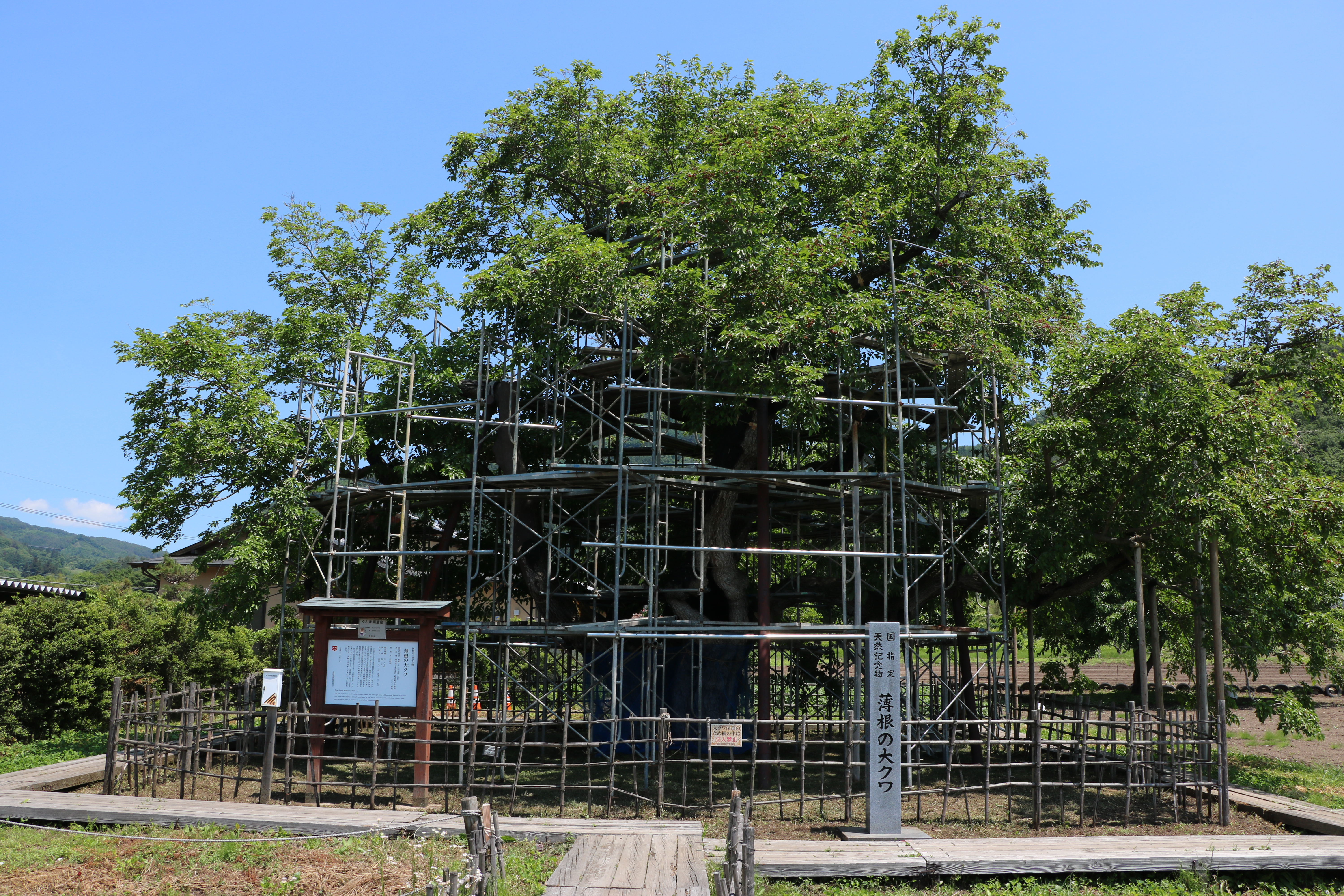 Usune no O-Kuwa The Great Mulberry of Usune